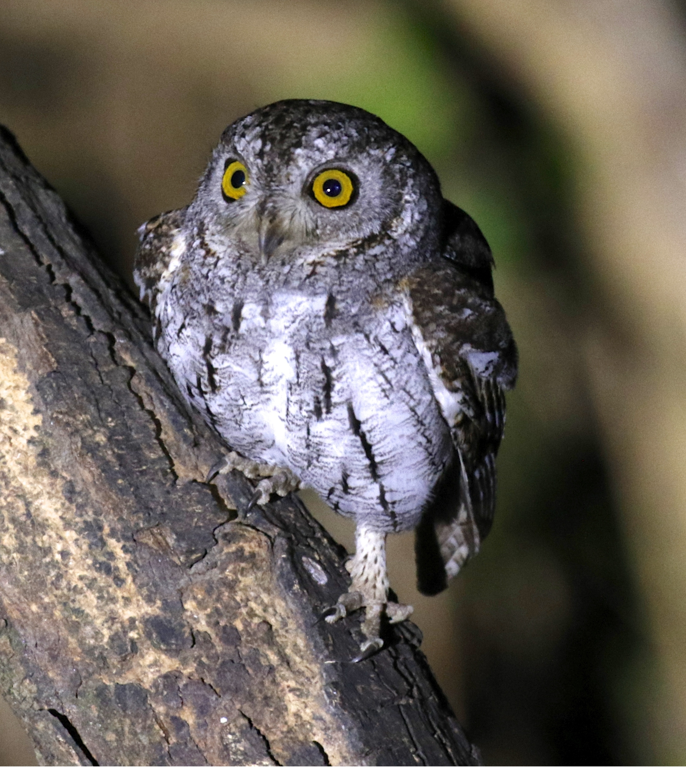 Near Kaeng Krachen Nat’l Park - Thailand